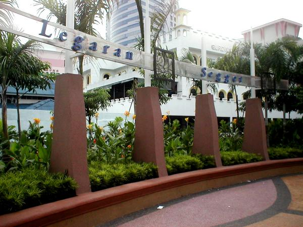 The new Legaran Segget taken in Johor Bahru, Malaysia. Taken by Haniff in June 2005 and released to the public domain.